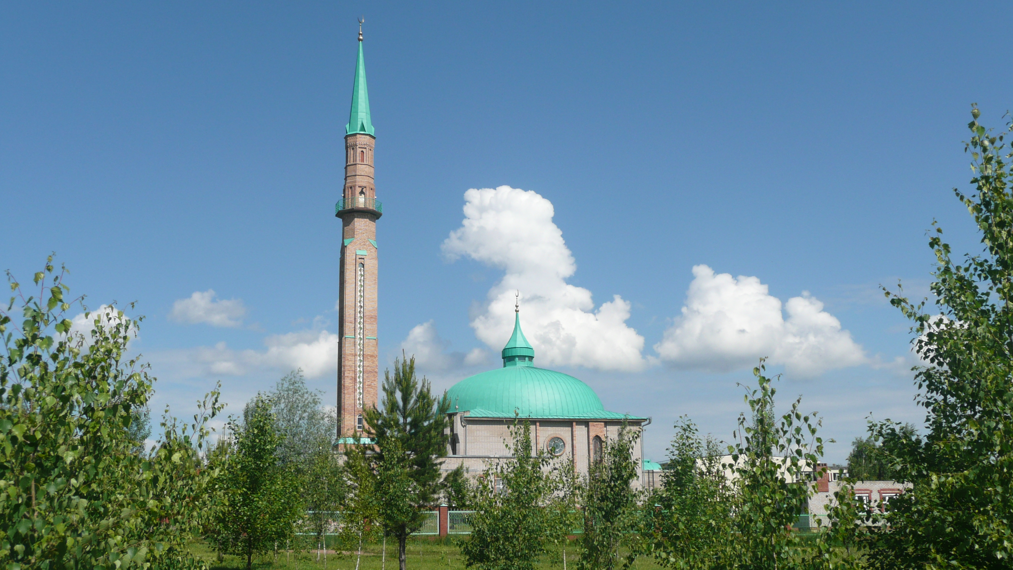 Mosque in Elabuga (Tatarstan)